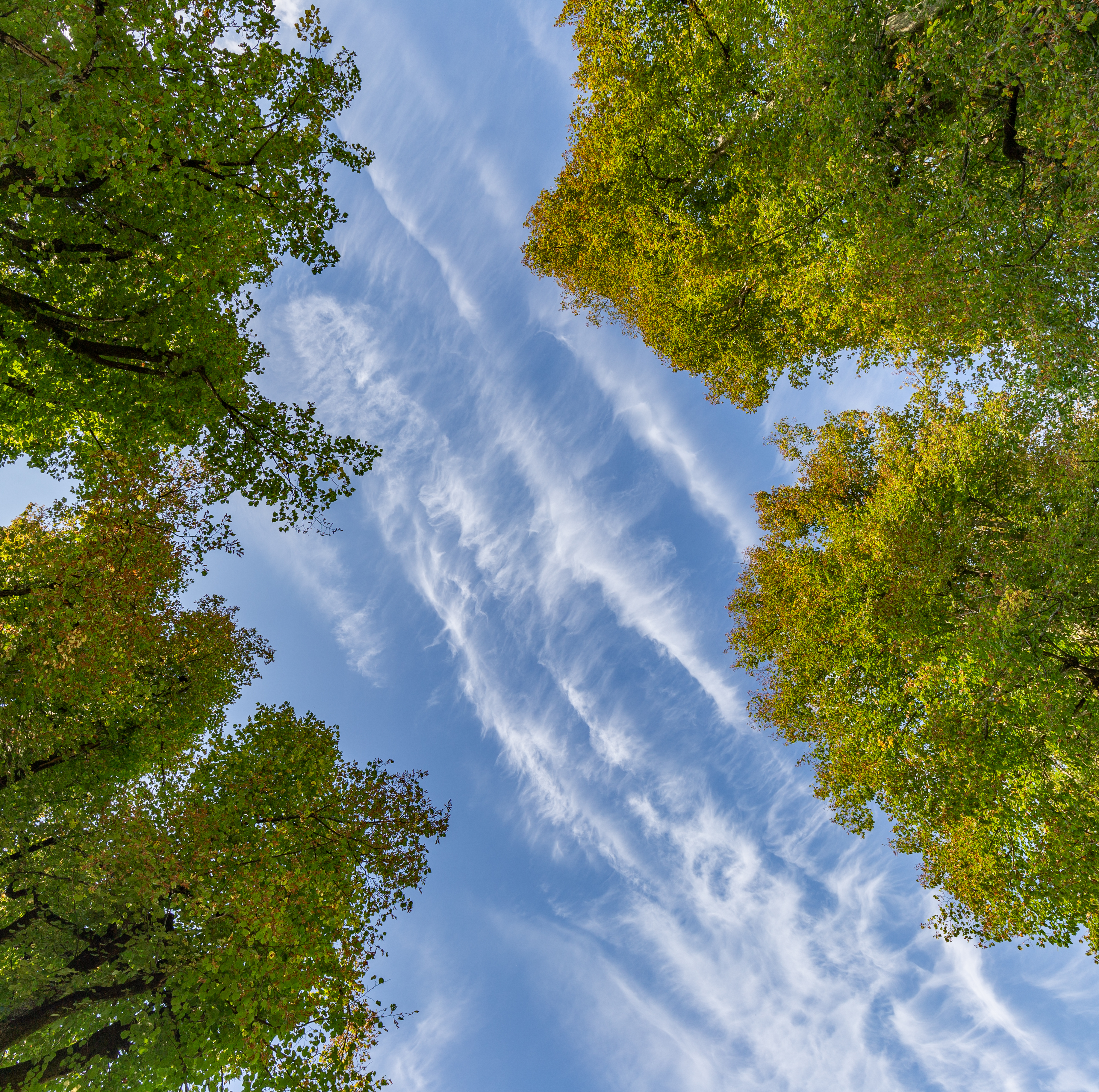 Linden trees and the sky with clouds in Planina, Postojna, Slovenia